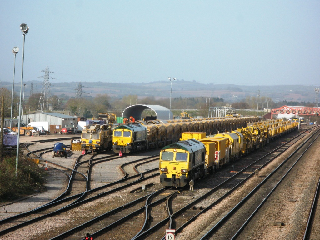 The Network Rail High Output Renewals base at Fairwater Yard, Taunton, Somerset, England. Two Freightliner Class 66 locomotives are ready for their next trains, 66624 (left) and 66606 (right).